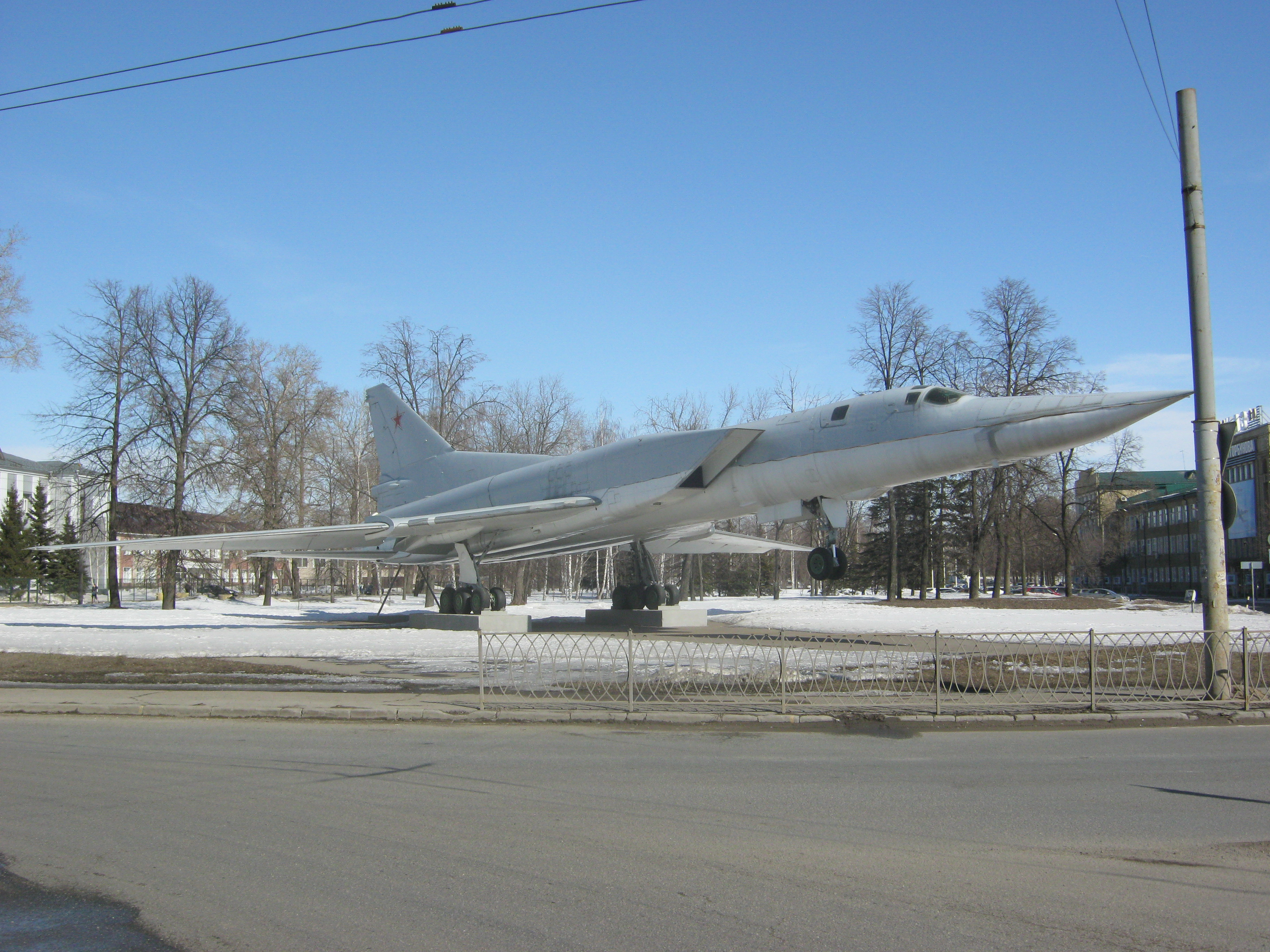 Exposed Tupolew Tu-22M at the intersection of the Maksimova Street and Amirchana Street in Kazan, Russia.